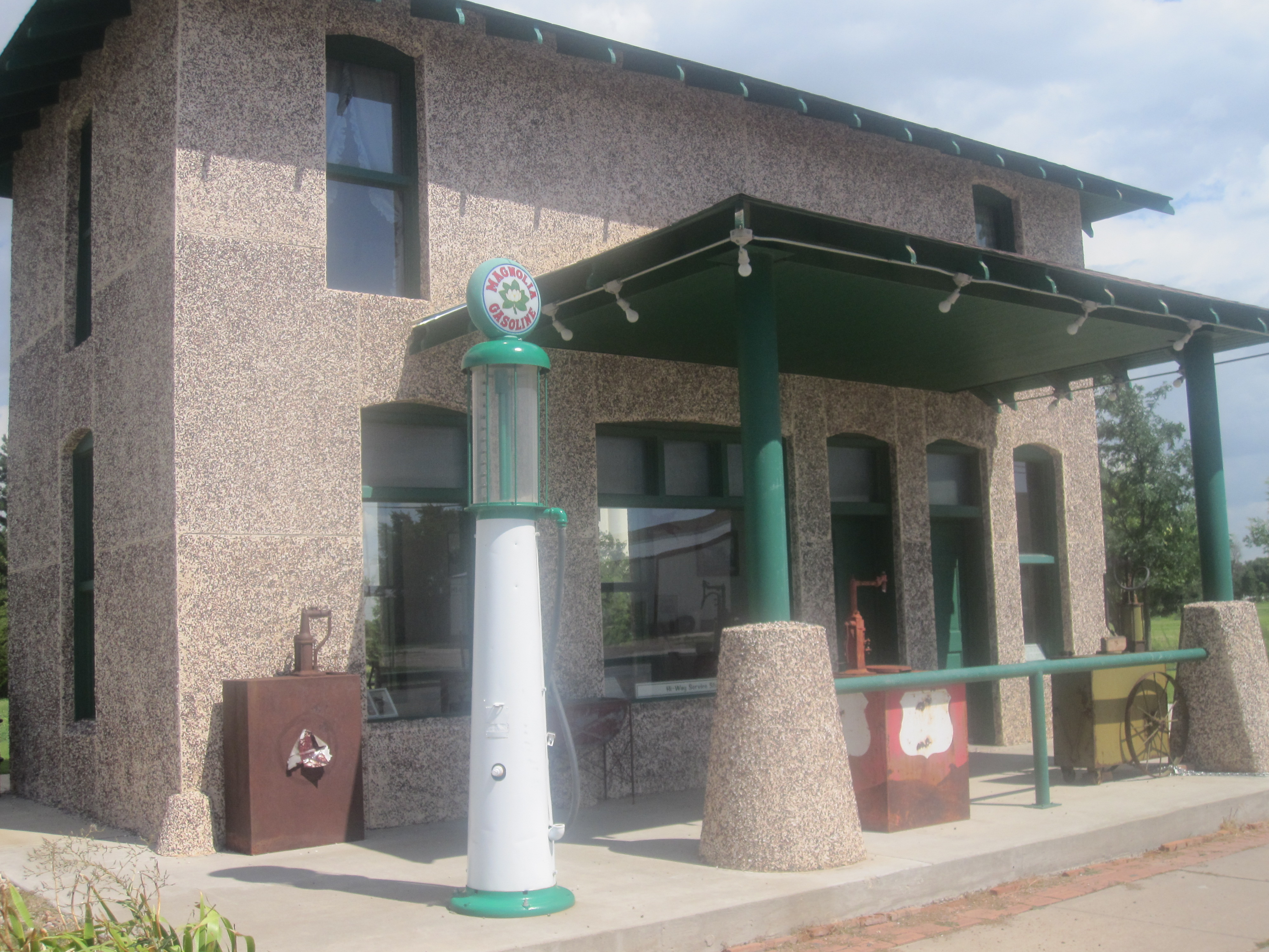 I took photo with Canon camera in Vega, TX.